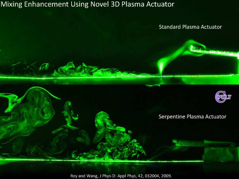 Comparison between flow structures generated by linear (top) and serpentine (bottom) geometry surface dielectric barrier discharge plasma actuators. Results demonstrate increased turbulent boundary layer thickness and suggest improved mixing when using the serpentine geometry plasma actuator.